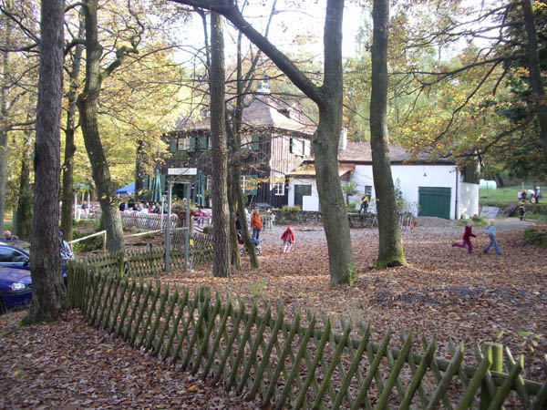 Picture of the Lindemannsruhe, a restaurant for daytrippers close to Bad Dürkheim (Germany)